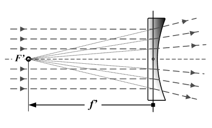 Focal length of a negative lens.